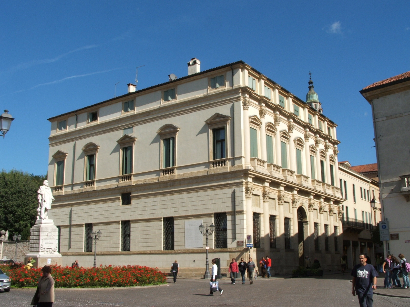 Vicenza - Palazzo Thiene-Bonin-Longare, by Andrea Palladio, located at the beginning of Corso Palladio in the historical centre.